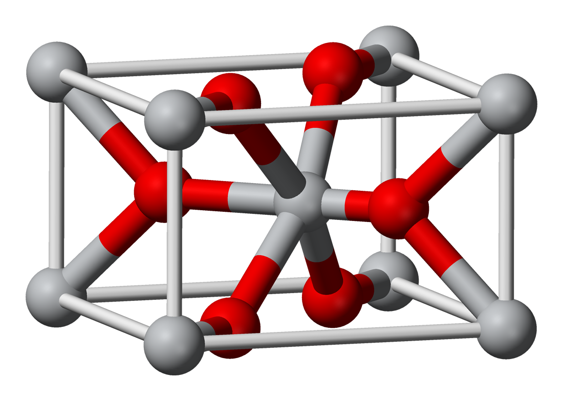 Ball-and-stick model of part of the crystal structure of rutile, one of the mineral forms of titanium dioxide, TiO2. Oxygen atoms are coloured red, titaniums are grey. X-ray crystallographic data from: R. W. G. Wyckoff (1963) Second edition. Interscience Publishers, New York, New York. Crystal Structures 1, 239-444 CIF retrieved from The American Mineralogist Crystal Structure Database. See R. T. Downs, M. Hall-Wallace, "The American Mineralogist Crystal Structure Database.", American Mineralogist (2003) 88, 247-250 for details. Image generated in Accelrys DS Visualizer.